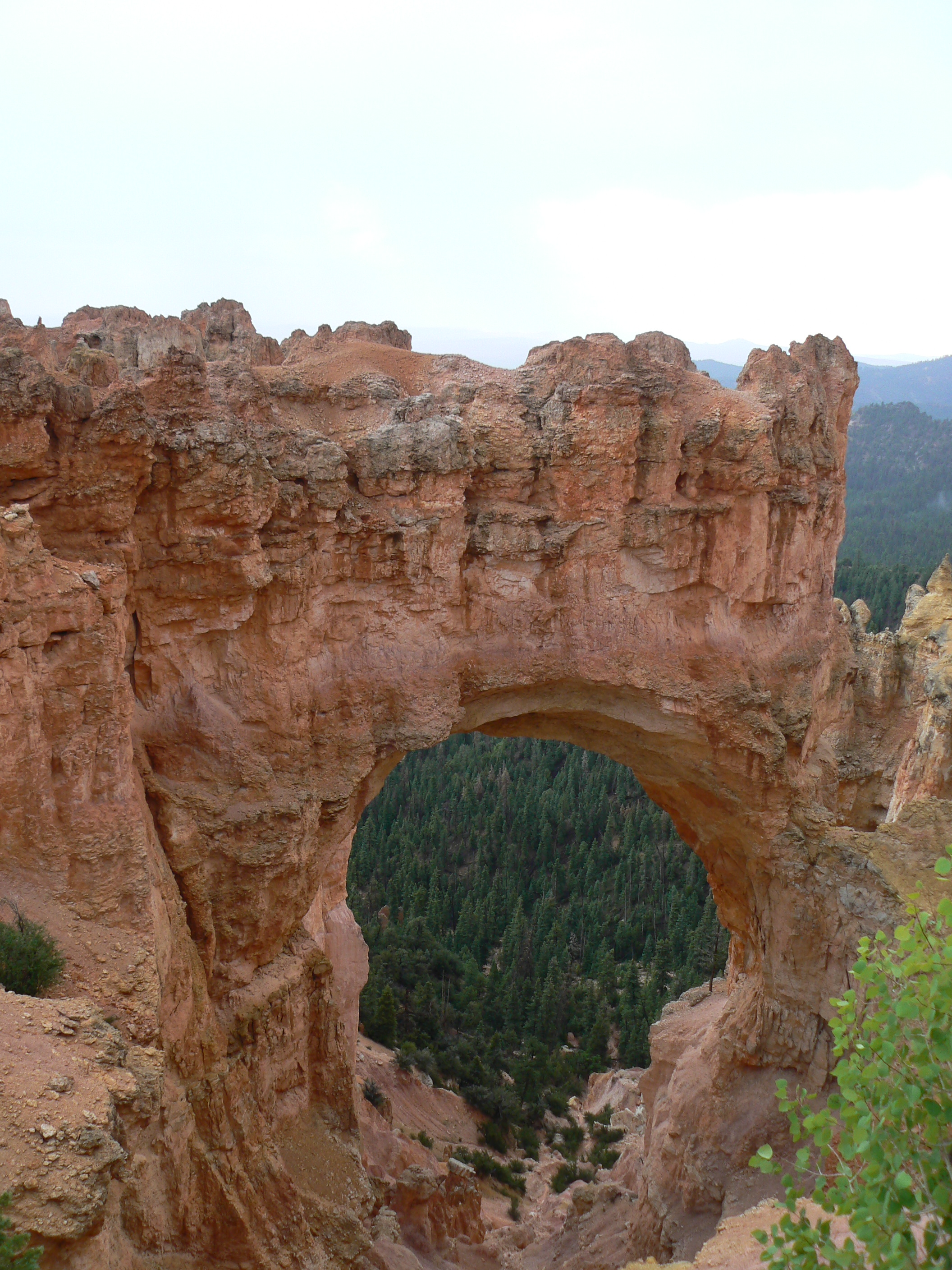 A natural archway in Bryce Canyon National Park, Utah.